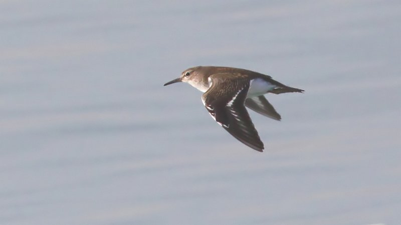 Common Sandpiper (Actitis hypoleucos)